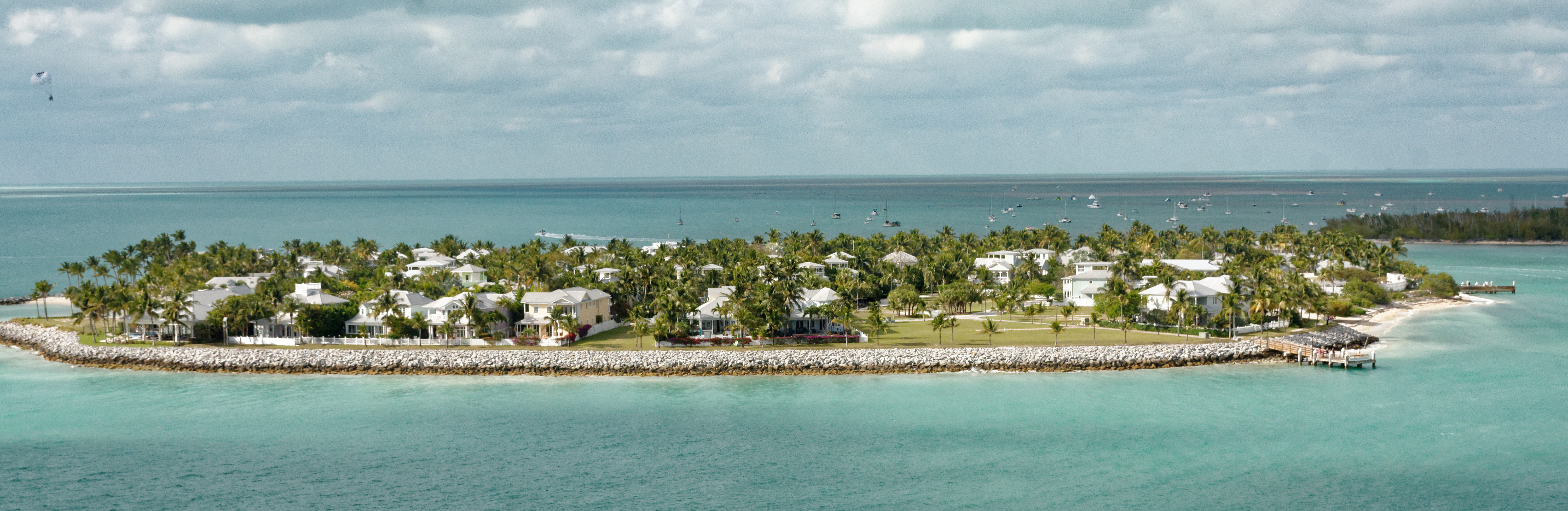 Sunset Key Island, at Key West, Florida, U.S. Wisteria Island is to the right.